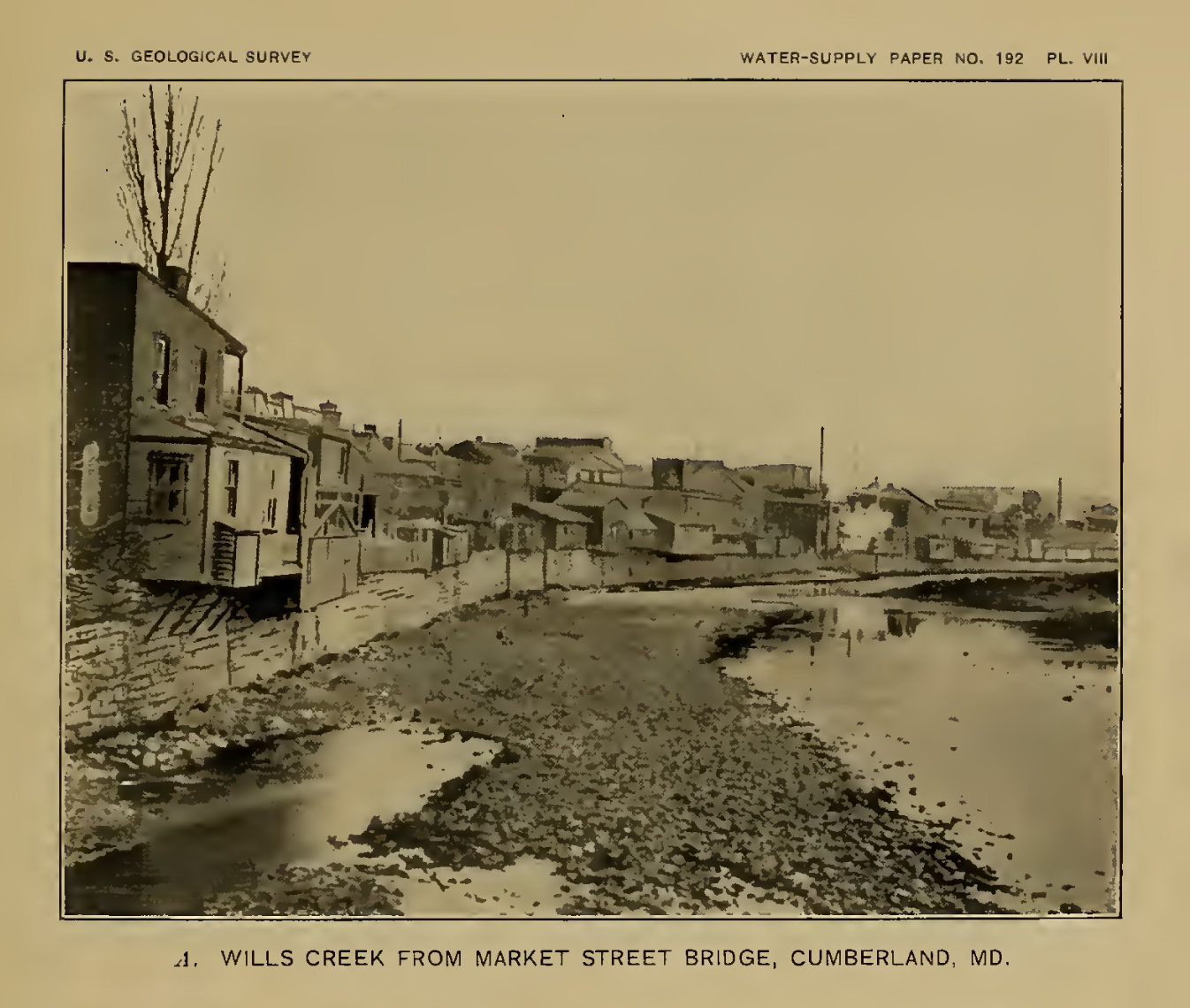 View of Wills Creek from Market Street Bridge, Cumberland, Maryland, taken from The Potomac River Basin. Washington, DC: Government Printing Office, 1907.